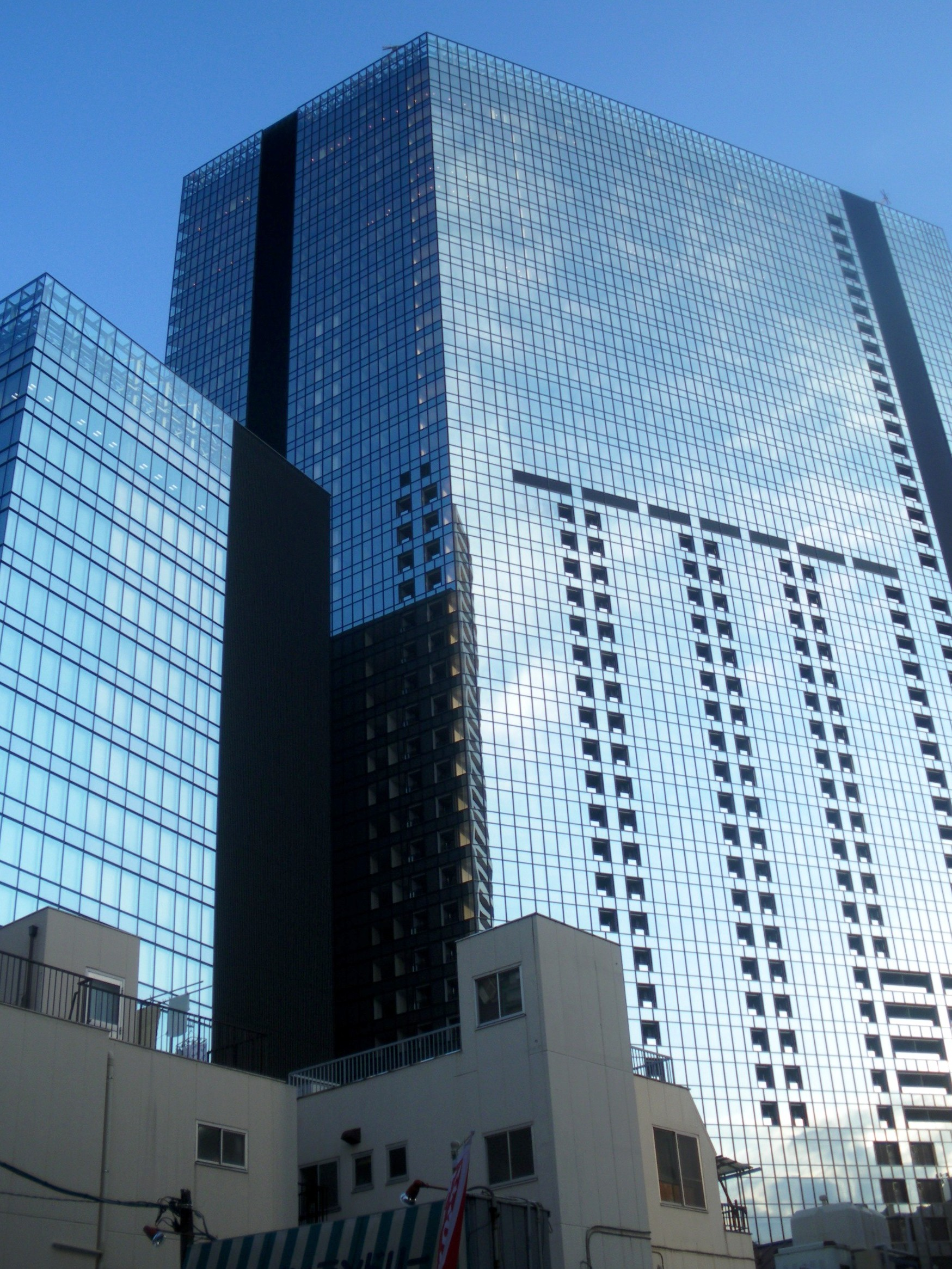 A photo of Shinjuku Central Park City,Nishishinjuku,Shinjuku-ku,Tokyo,Japan.